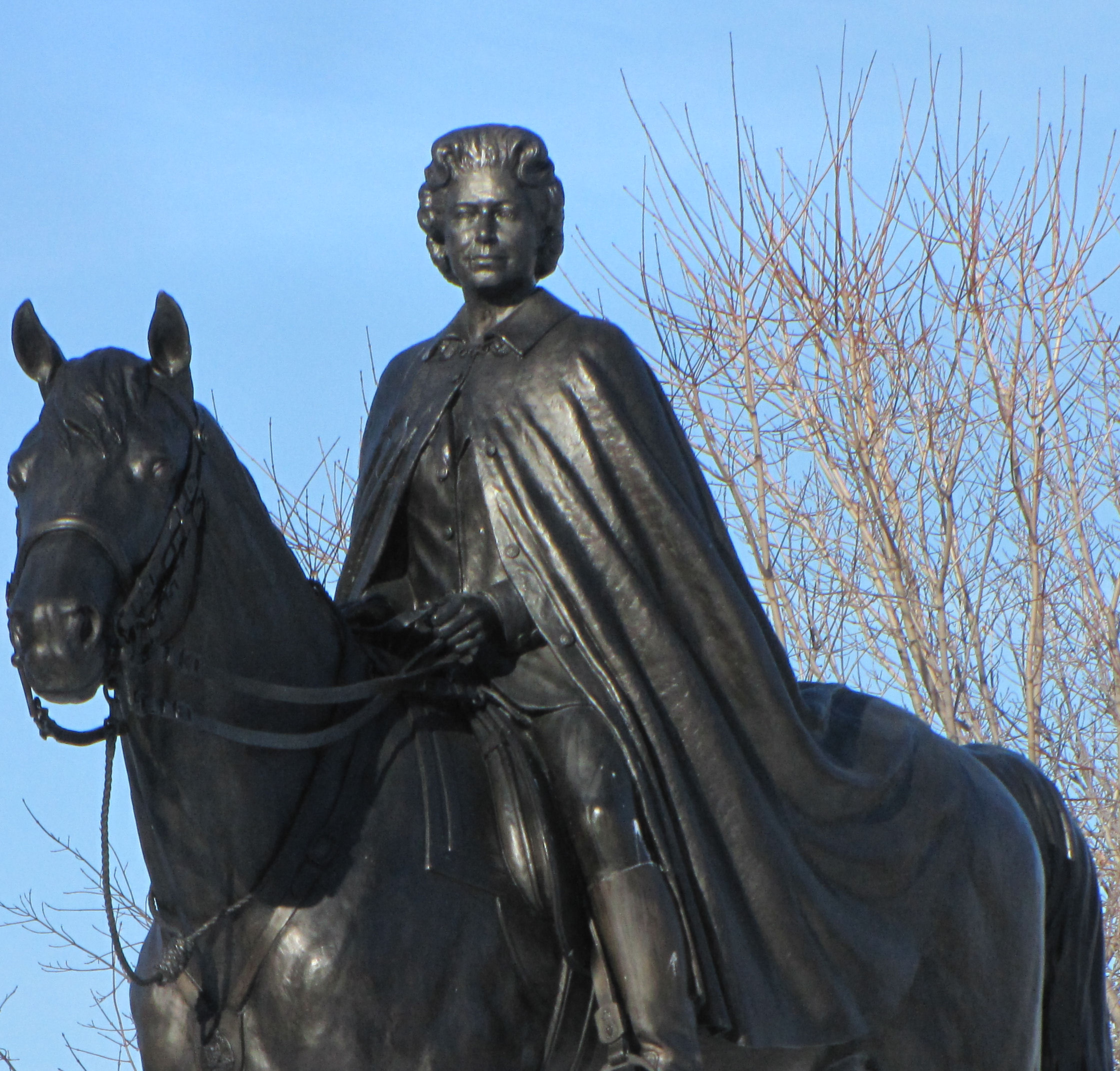 Statue of Queen Elizabeth on horse, Parliament Hill, Ottawa, Ontario, Canada